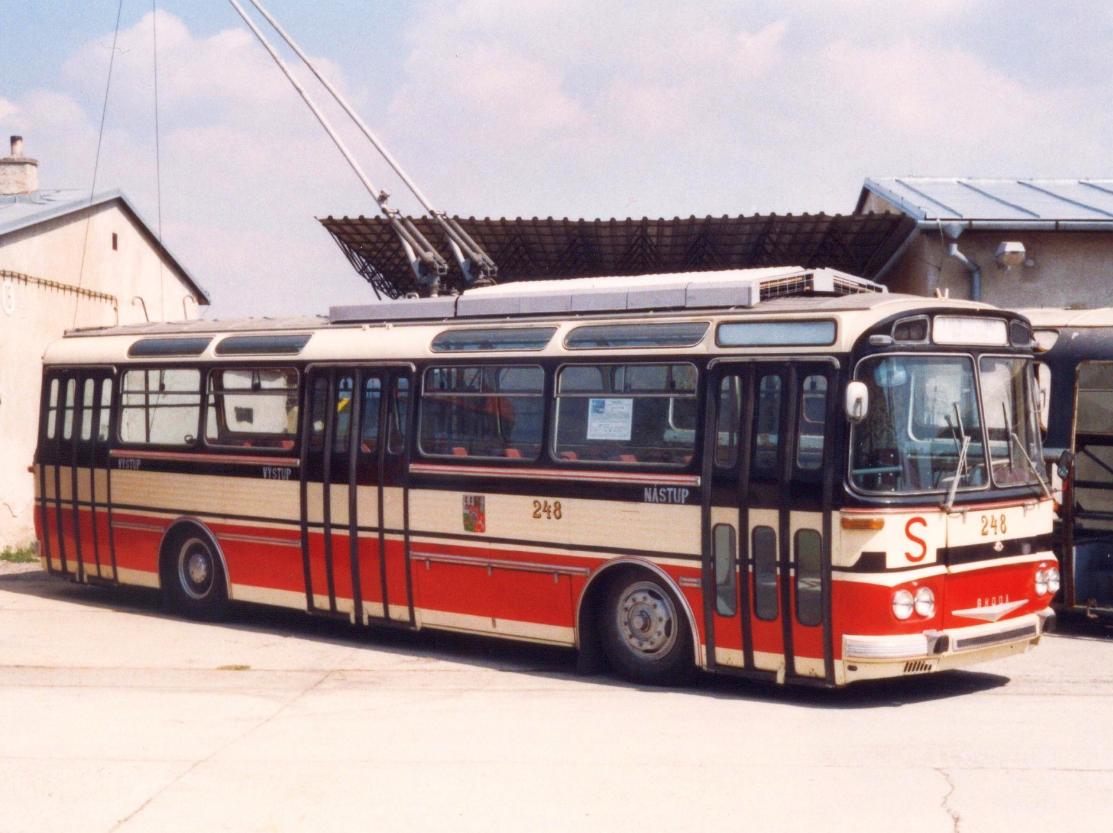 Škoda T 11/0 historical trolleybus (ex Plzeň), depository of Technical Museum in Brno, Czech Republic - Google Maps - Google Earth